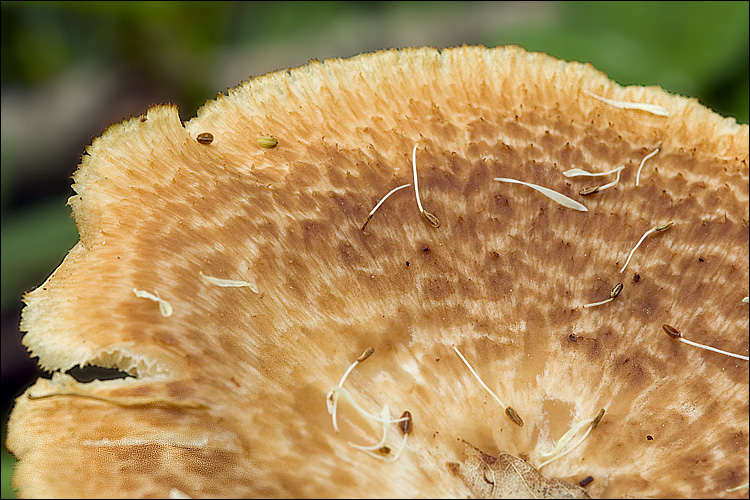 Polyporus tuberaster (Jacq.) Fr.